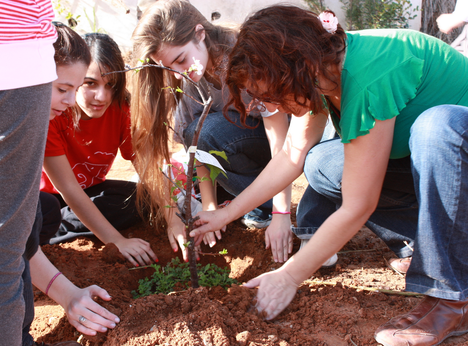 Environment of Israel: Tu Bishvat.